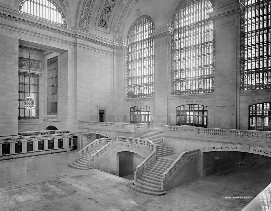 West balcony, main concourse, Grand Central Terminal, N.Y. Central Lines, New York